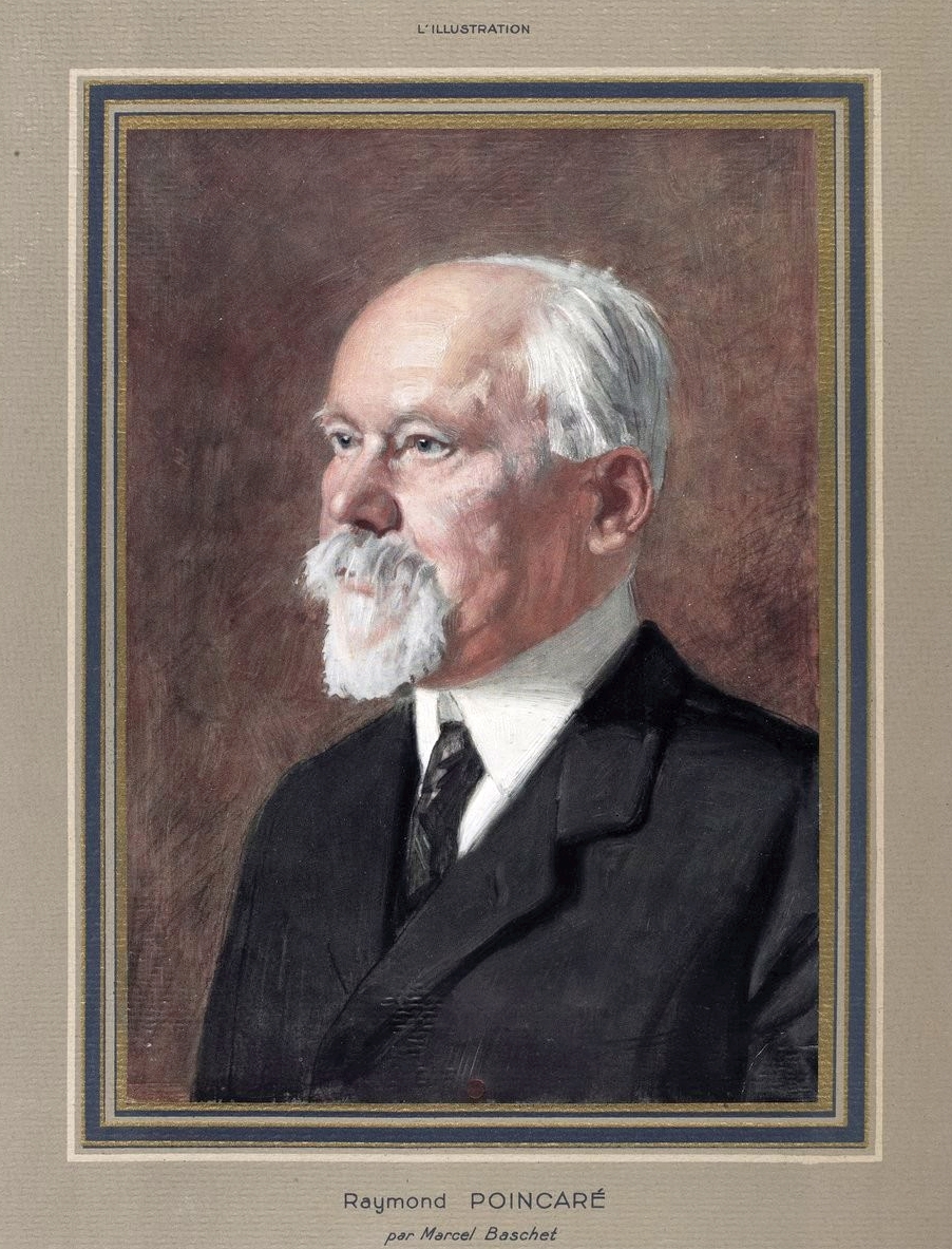 Raymond Poincaré par Marcel Baschet